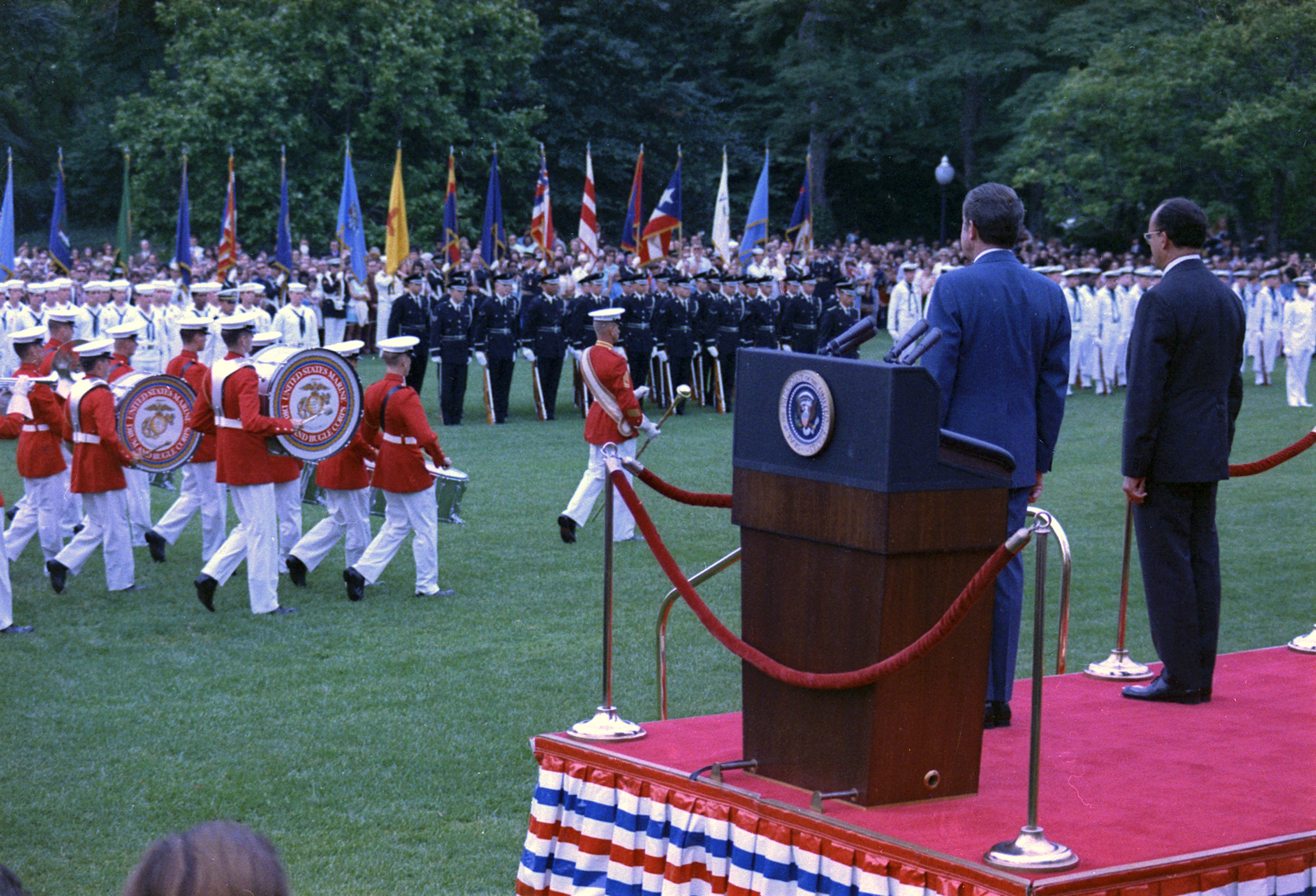 Richard Nixon, president of the United States, and Luis Echeverría, president of Mexico, review U.S. troops.